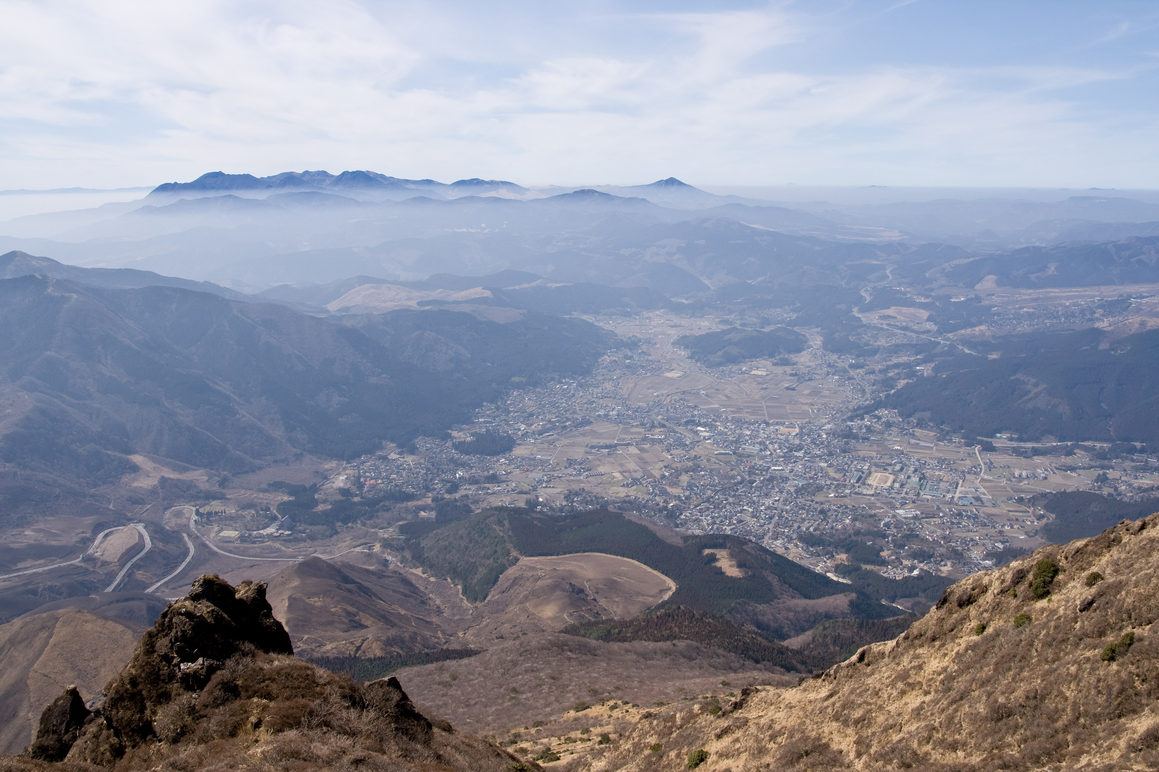 Yufuin Basin, Yufu City, Oita Pref., Japan.